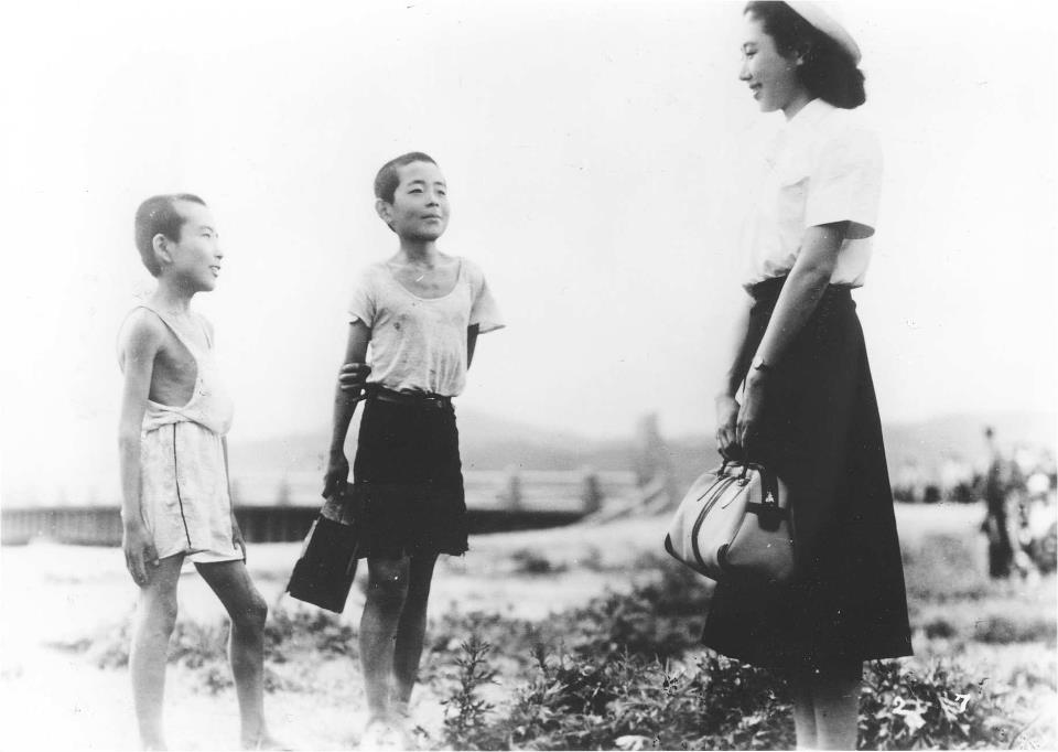 Nobuko Otowa and Children in 1952 Japanese movie Genbaku no ko(Children of Hiroshima).